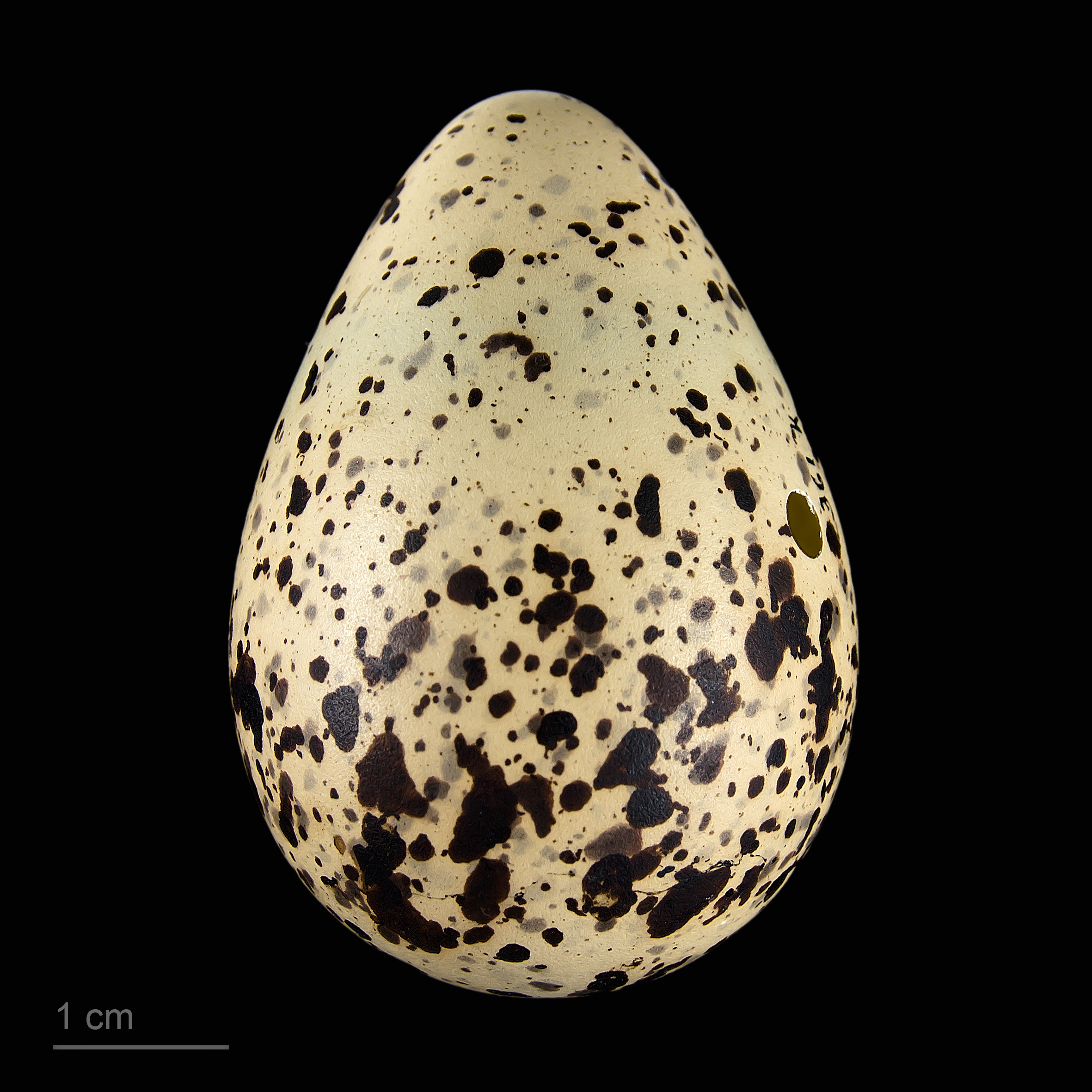 Eggs of common redshank Two specimens of the same spawn ; collection of Jacques Perrin de Brichambaut.